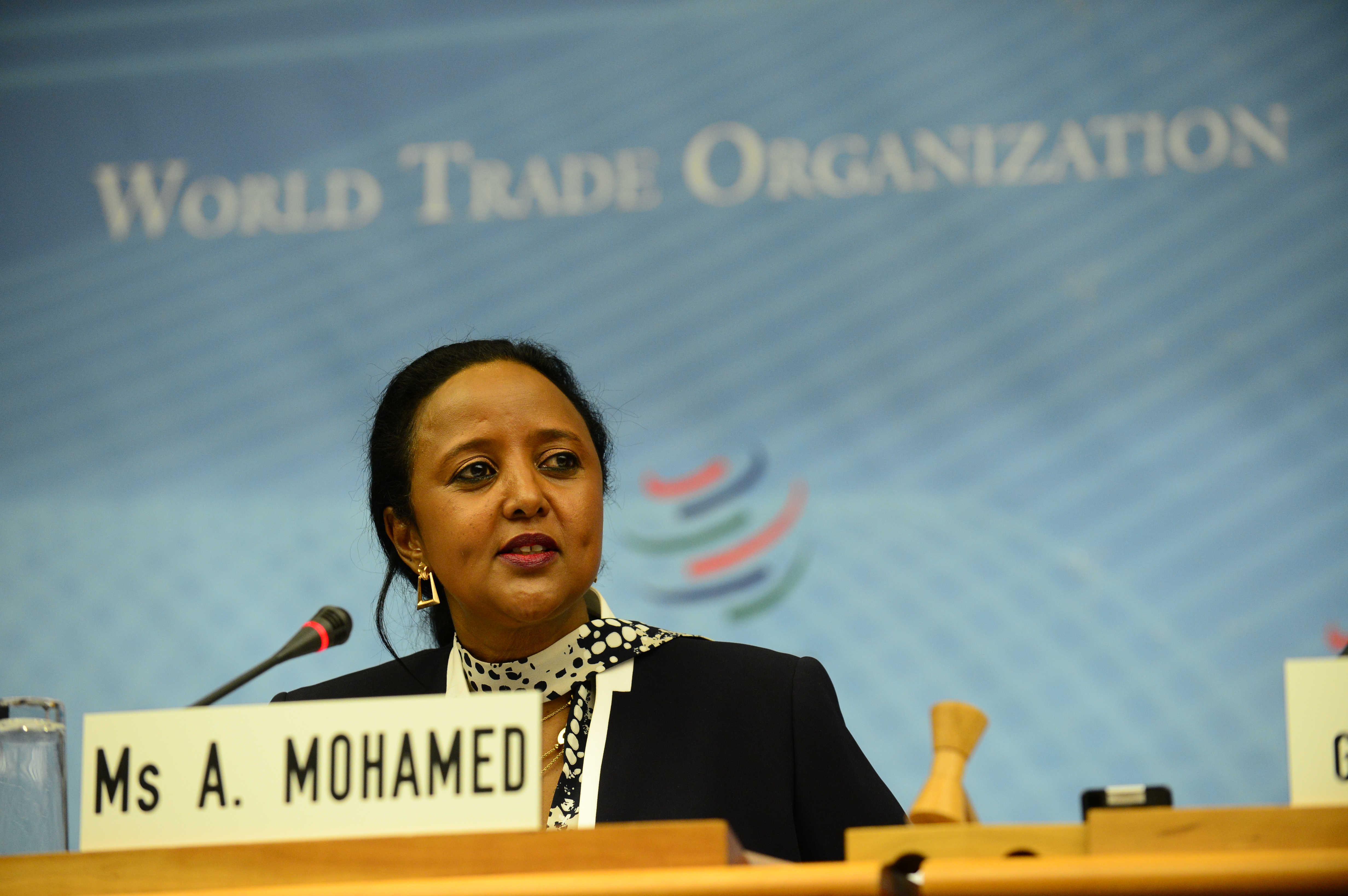 Somali politician Amina C. Mohamed during the WTO Director-General Selection Process (January 30, 2013).